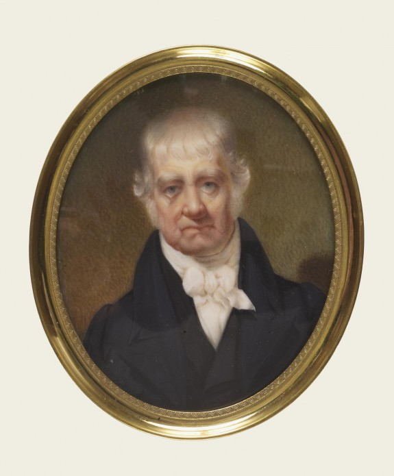 Miniature self-portrait by Edward Dalton Marchant, painted c. 1860